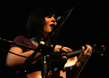 Julia Marcell performing at OVERLIVE Festival 2008, in Marinha Grande - Portugal